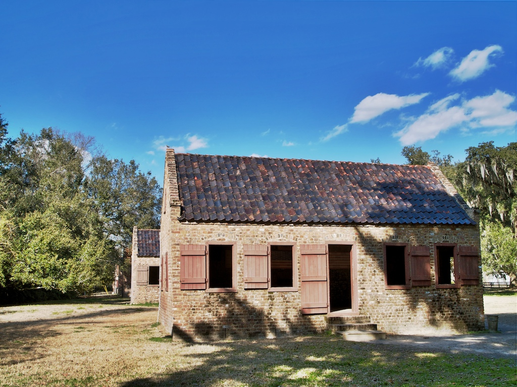 Slave Cabins on Boone Hall Plantation, Charleston, SC